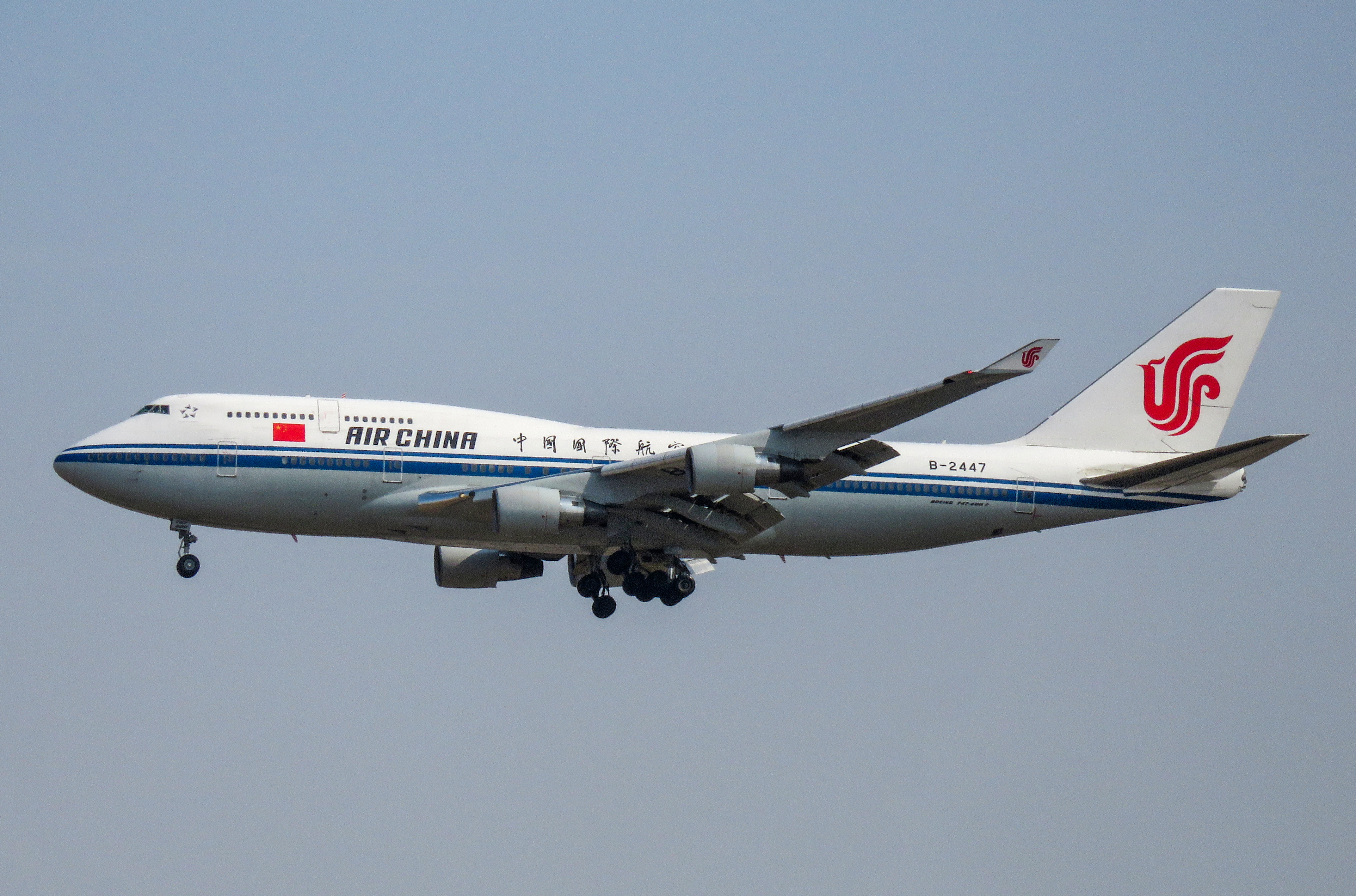 Air China 1330 from Guangzhou. This is the very aircraft that has flown The Elder for several years... Original file name contains 1989, the year when He was appointed from Shanghai to Beijing.Update: This is the very 747 that flew Kim Jong-un from Pyongyang to Singapore for the Trump-Kim summit. Surely B-2447 has become a witness of history.